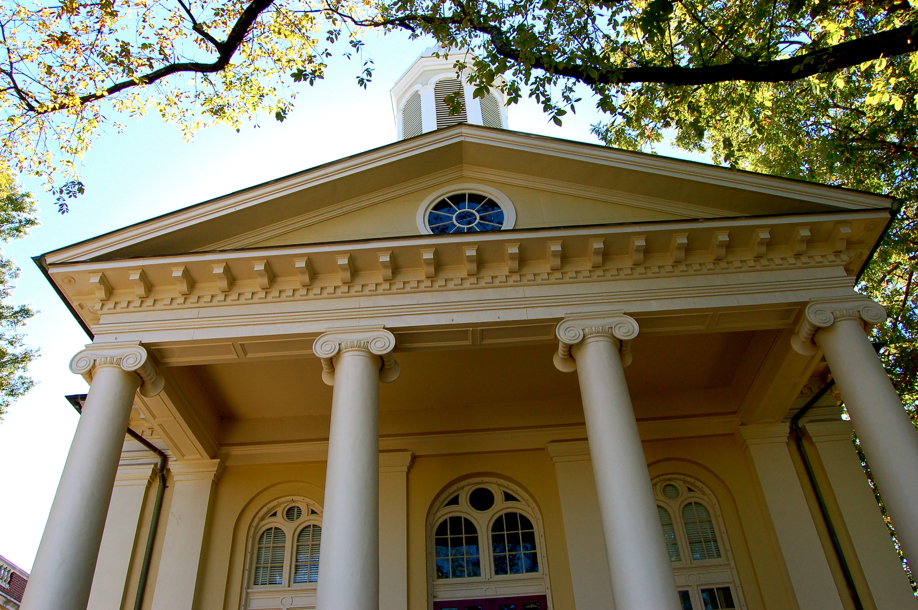 Fauquier County Courthouse — in Warrenton, Virginia.